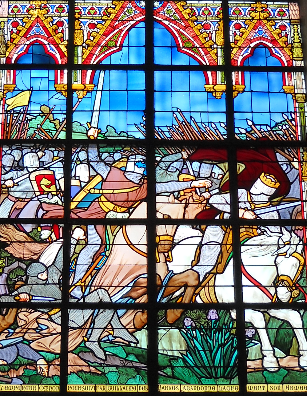 Stained glass inside St.Peter's church, in Bouvines, Nord, France: Emperor Othon leaves his army, as he is followed by Guillaume des Barres.